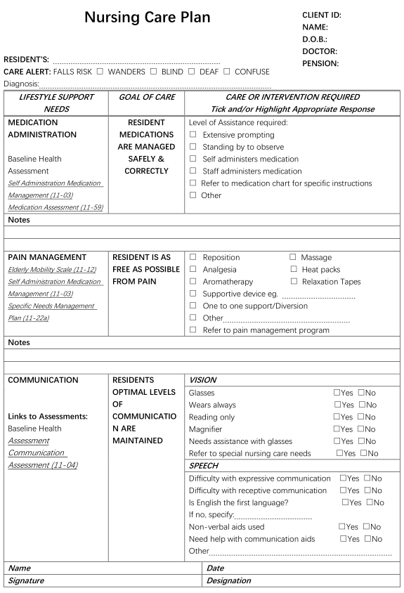 Figure 3-1. An example of a nursing care plan in an Australian residential aged care home.